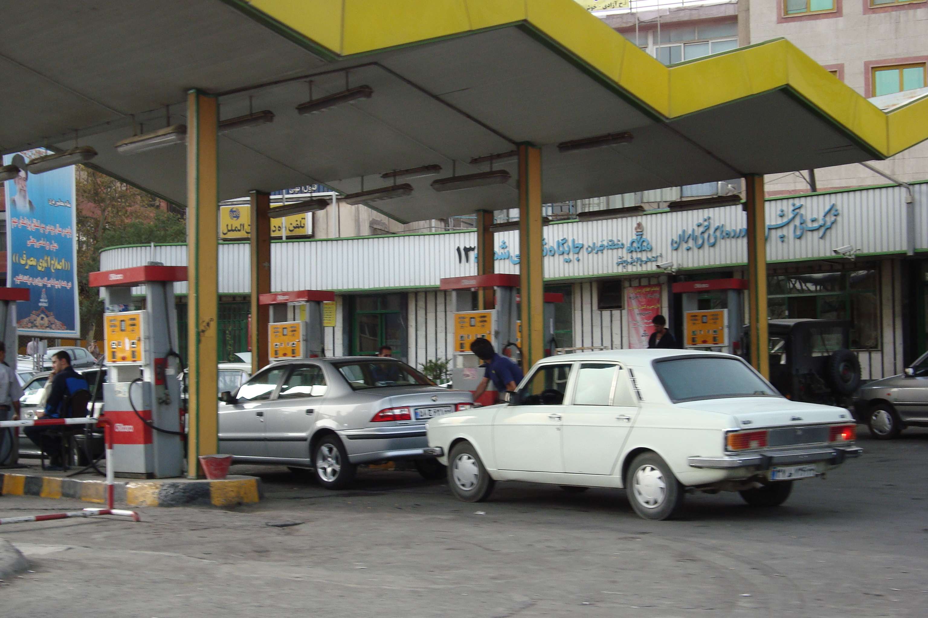 A petrol station in Iran Tehran Azadi St